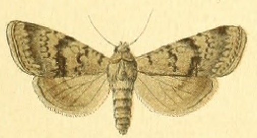 Image from Plate 6 of Die Gross-Schmetterlinge der Erde (The Macrolepidoptera of the World) Vol. 3